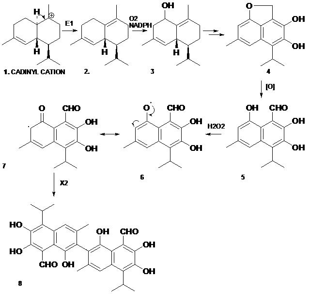 biosynthsis of gossypol